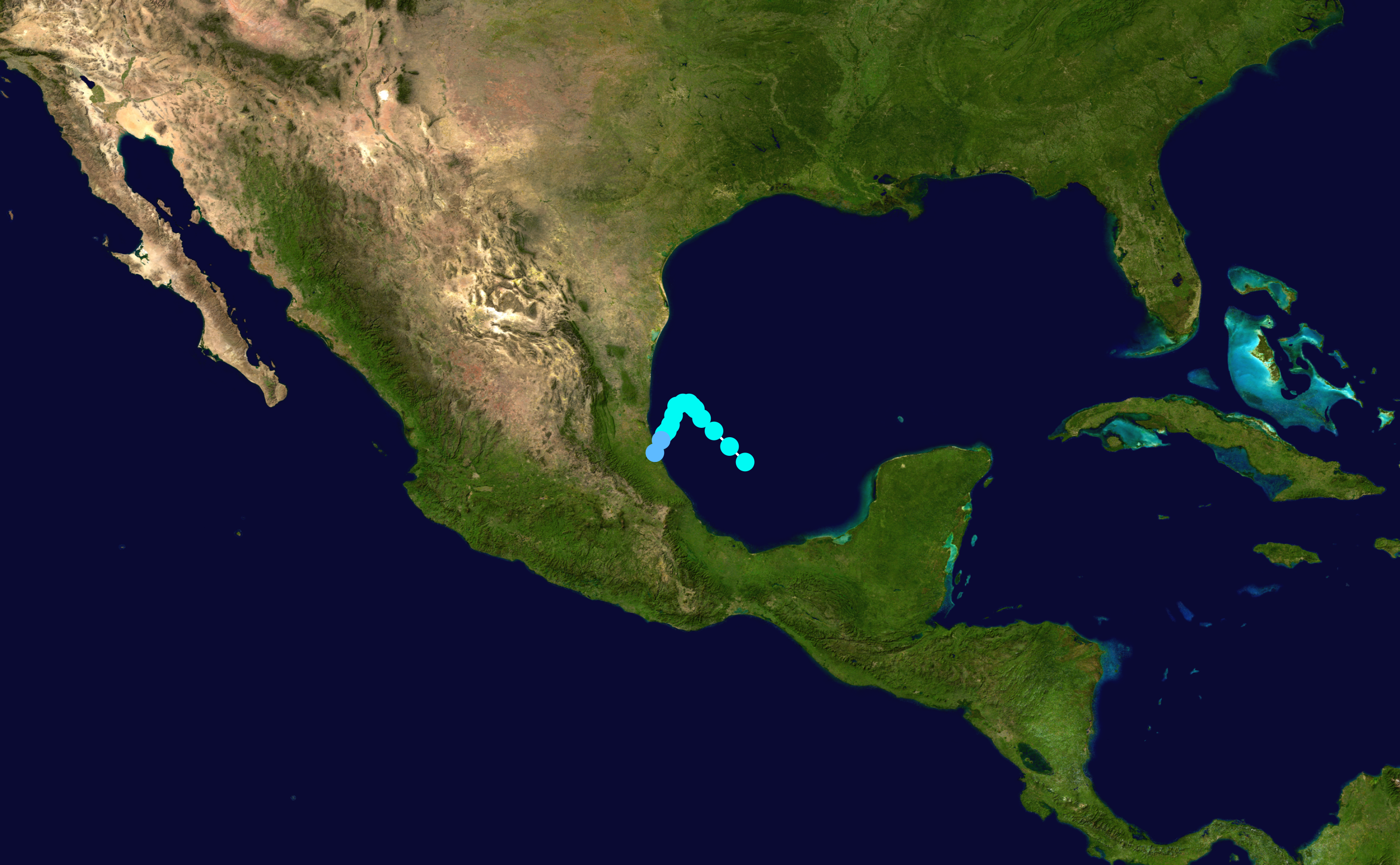 Tropical Storm Beulah (1959) track. Uses the color scheme from the Saffir-Simpson Hurricane Scale.